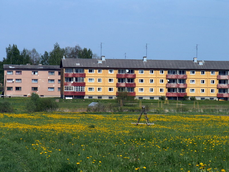 Panel building in Mikitamäe, Põlvamaa, Estonia. Typical example of soviet time panel buildings in contryside.